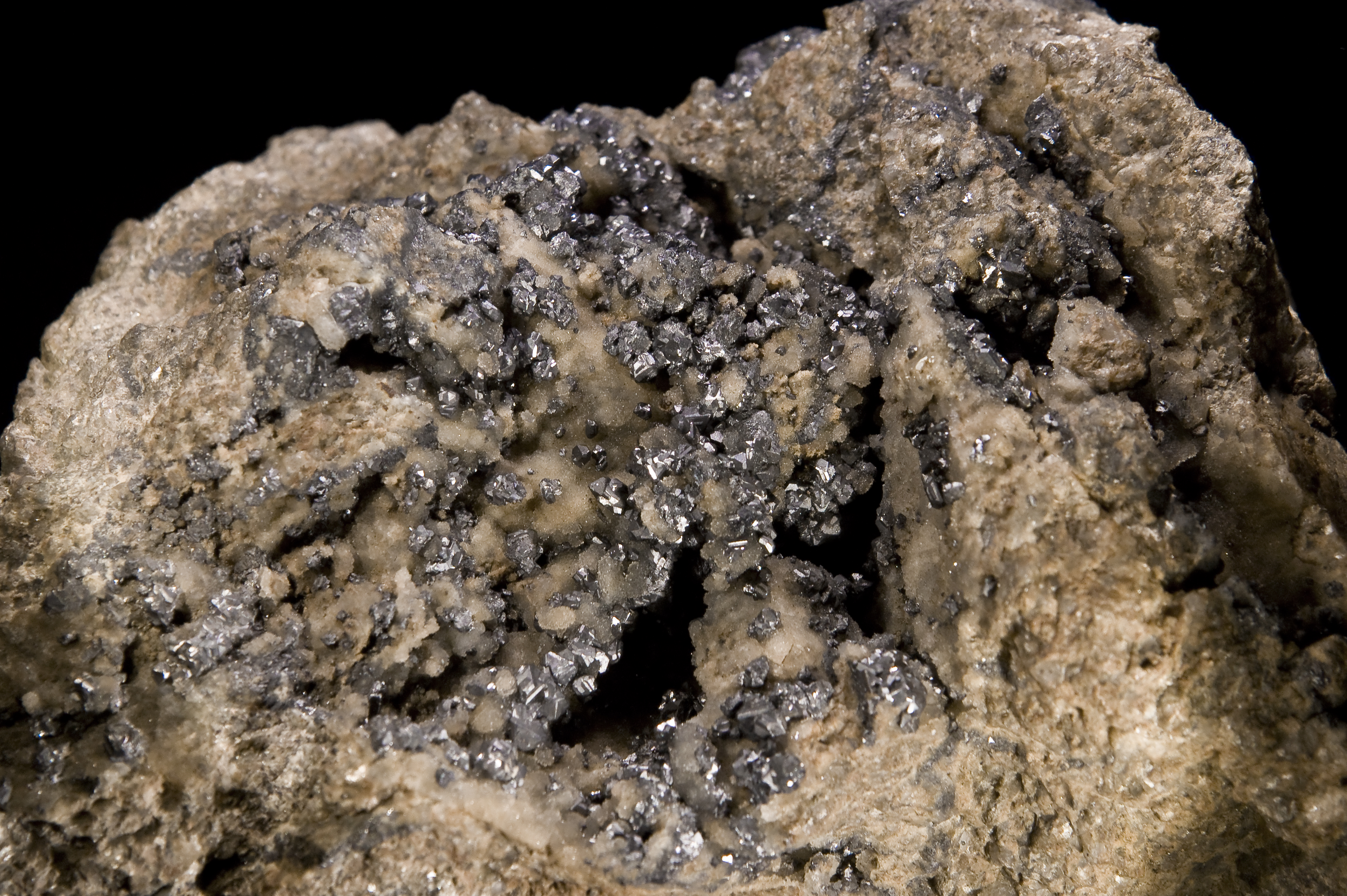 Mercurian Tetrahedrite Locality : Kirchheimbolanden, Rhineland-Palatinate, Germany Size : (10x6cm)